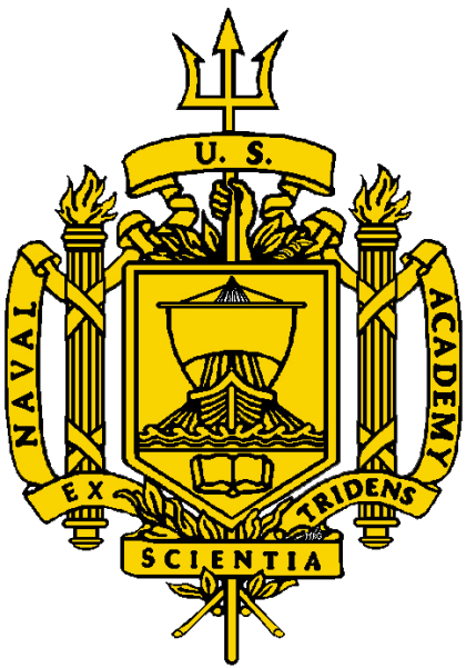 Insignia of the United States Naval Academy, transparent png version